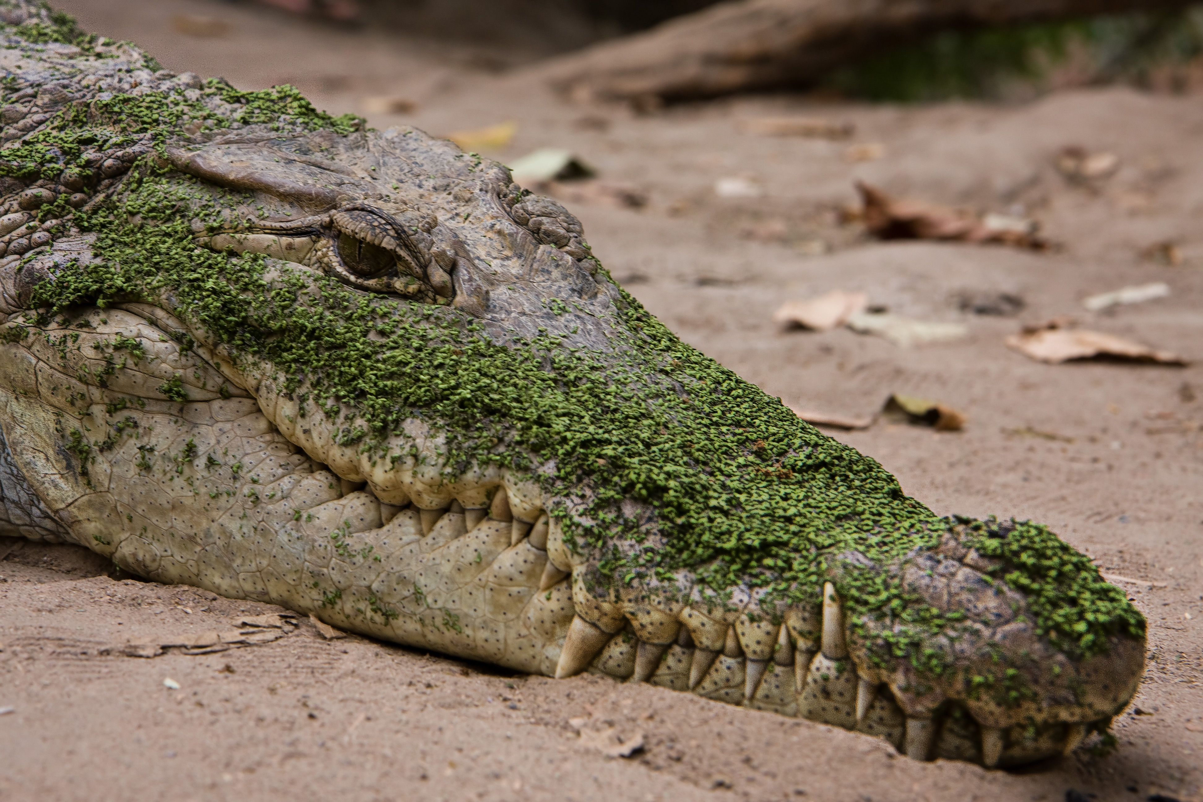 A holy crocodile in Kachikally near Bakau, The Gambia.